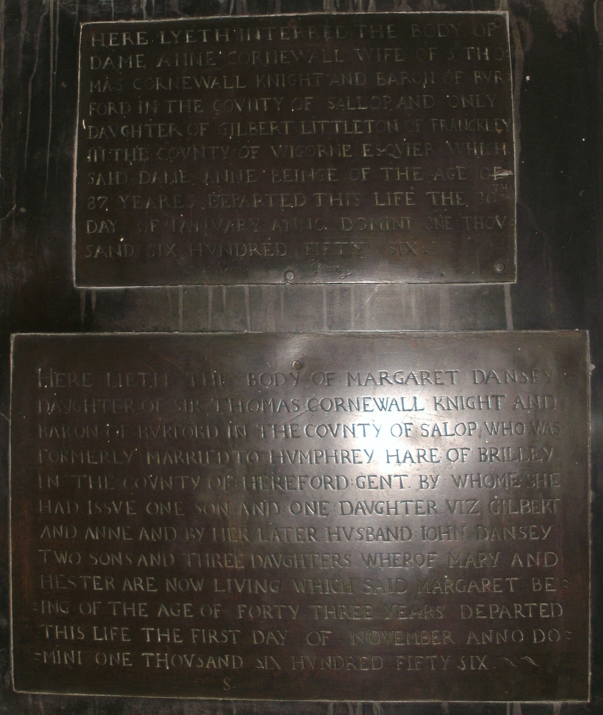 Hagley, St John the Baptist - interior, memorial to Anne Cornwall, née Lyttelton (only daughter of Gilbert Lyttelton and wife of Sir Thomas Cornwall) and her daughter.